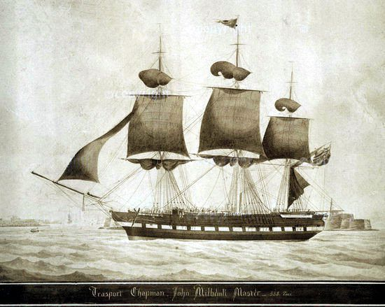 "Chapman", convict transport ship, also carried first 1820 Settlers from England to South Africa